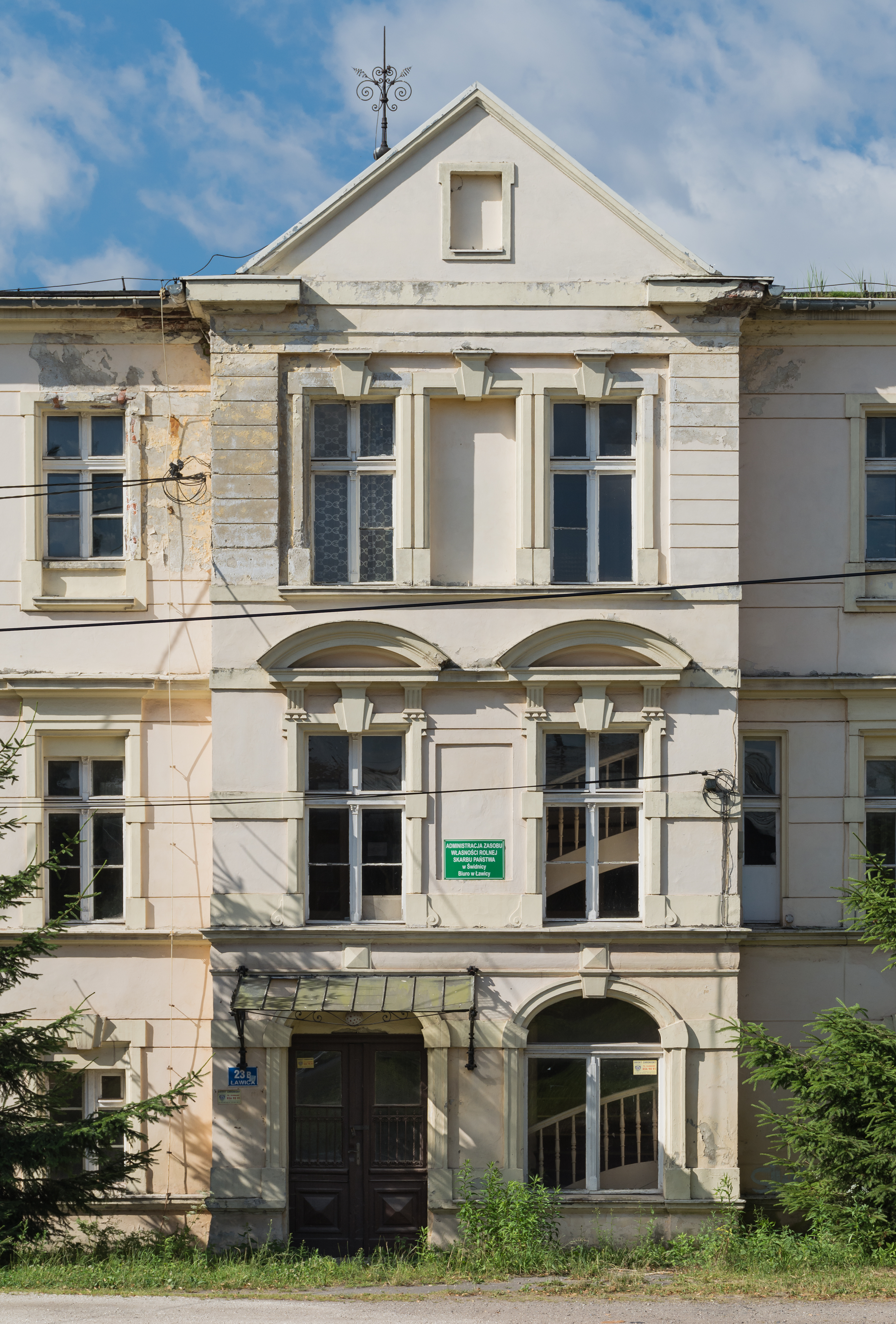 Manor in Ławica